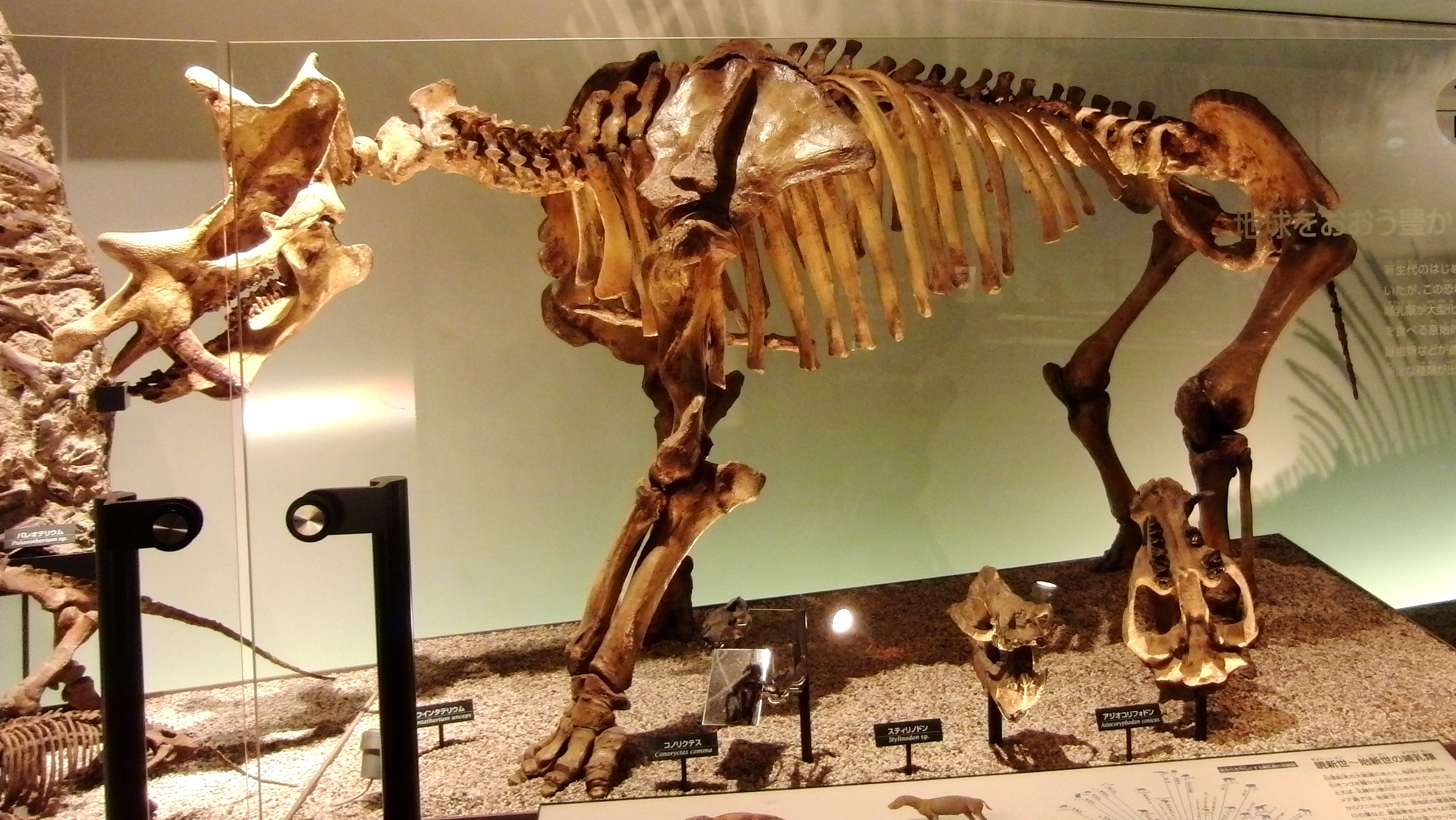 Skeleton of Uintatherium anceps. Exhibit in the National Museum of Nature and Science, Tokyo, Japan.